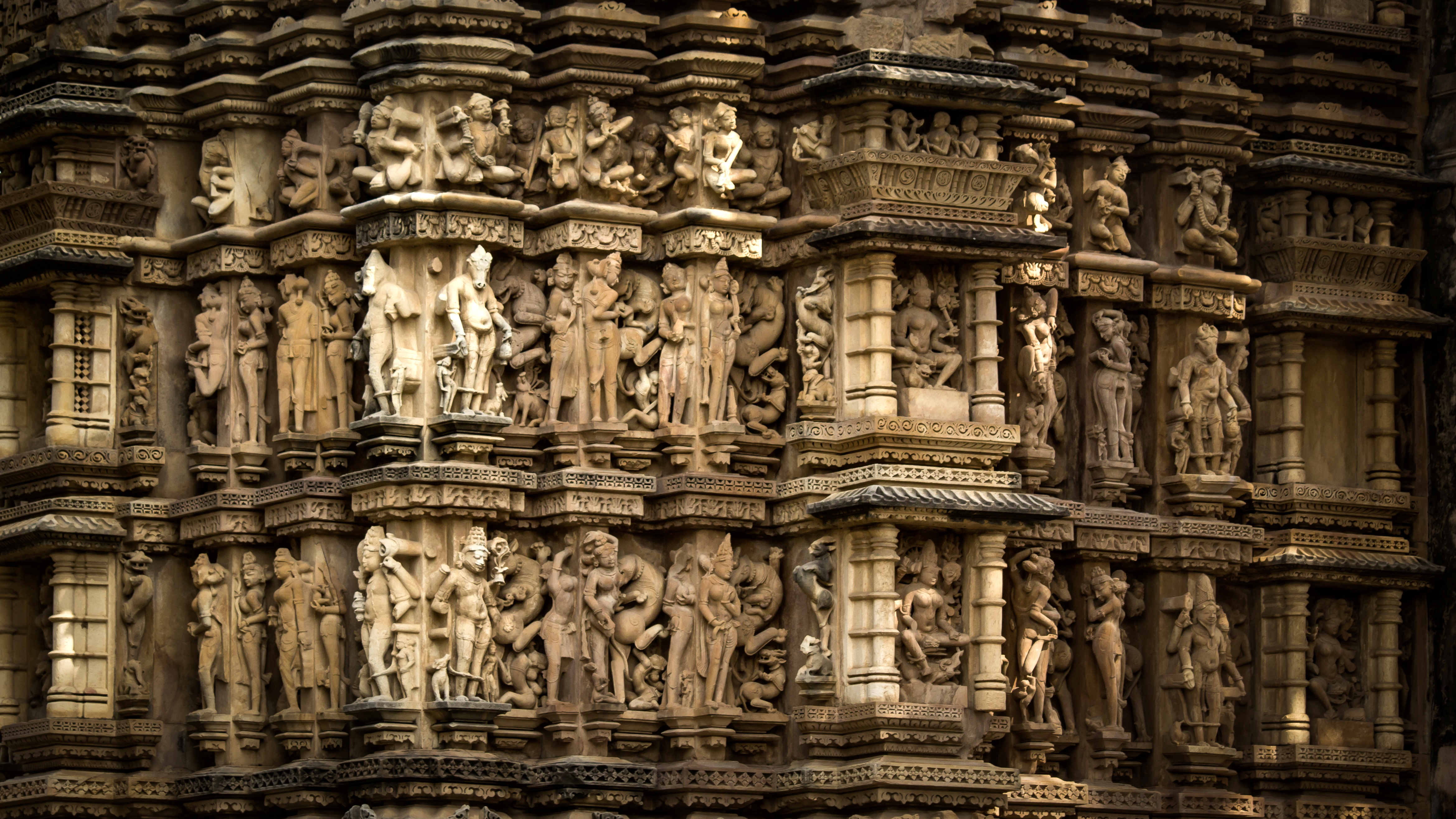 Enormous Gracious and Fascinating images of varied categories have been lavishly chiseled both on the interior and exterior walls of huge Mountain-like temples of Khajuraho!! ☝ The walls of the temples are so profusely sculptured that the entire construction, for a while, appears to be a single heavily carved, piece. No space on the walls of some of the temples has been left without significant sculptures. One can count as many as 872 Hindu Gods / Goddesses of 2½ ft - 3 ft in height on the walls of each of the 22 preserved temples! Chisels of the finest Craftsman have created a rhythmic movement through varied activities, further accentuating the Feminine grace